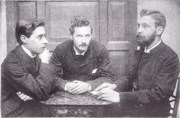 Platinum print photographic portrait of Bowyer Nichols, J. W. Mackail, and H. C. Beeching, c. 1882